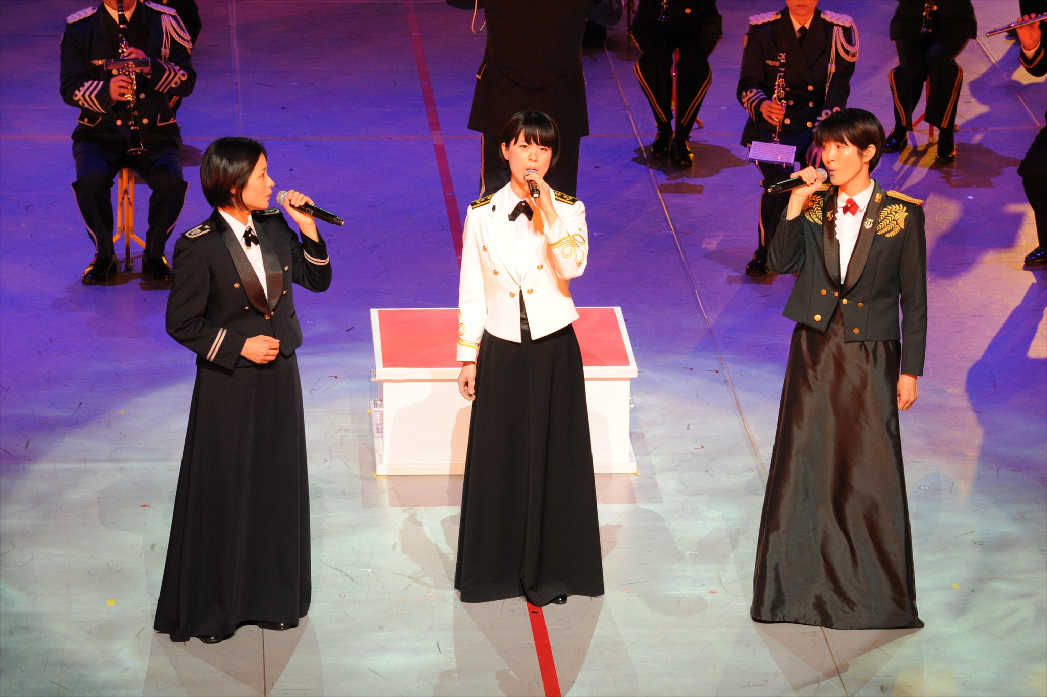 Title 陸・海・空自衛隊音楽隊合同演奏「ふるさと」_R.JPG Album 自衛隊音楽まつり 平成２４年度自衛隊音楽まつり 第三章「軌跡」 陸・海・空自衛隊音楽隊合同演奏